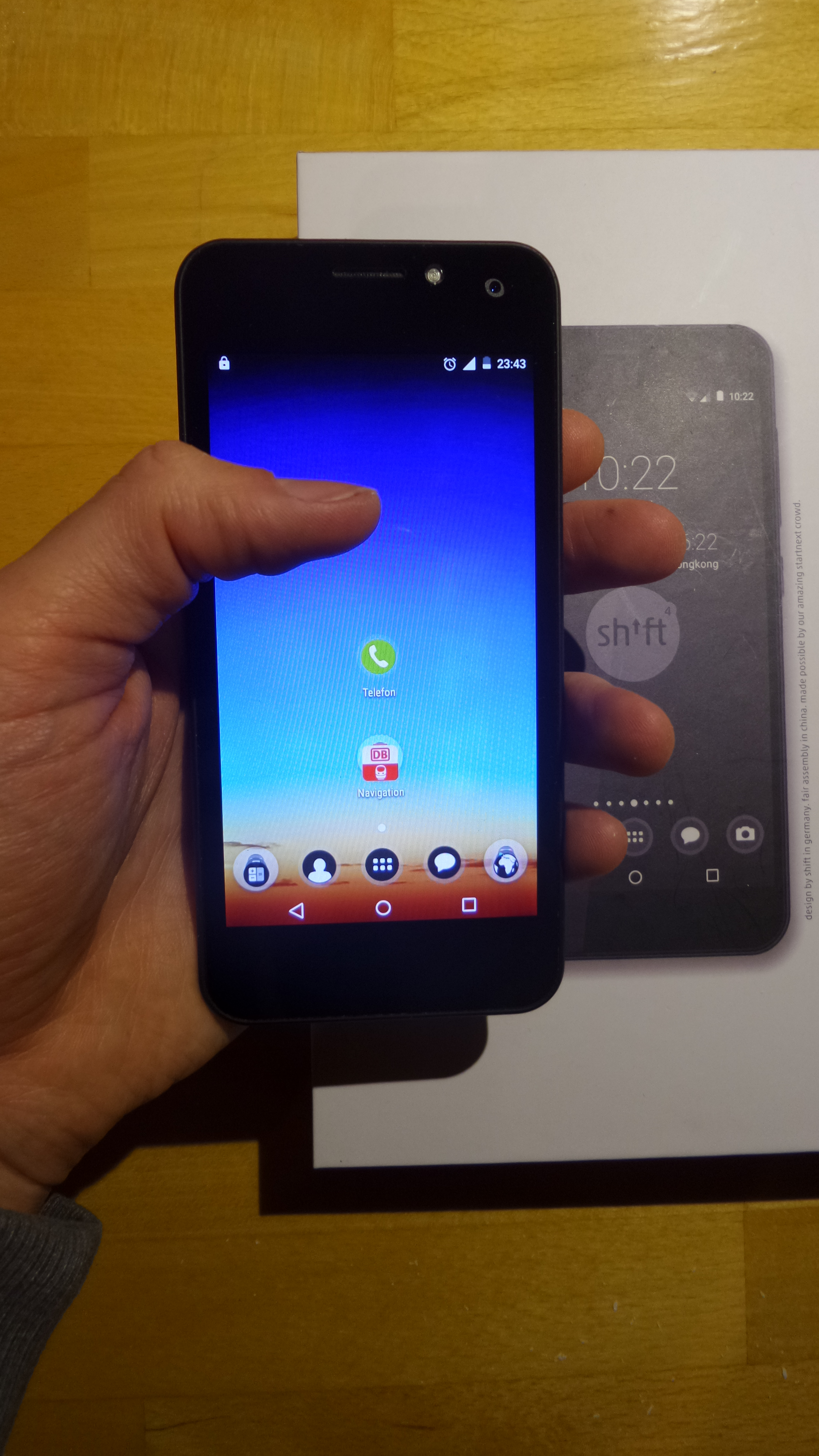 Shift4.2